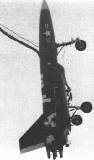 XBQM-108A VATOL testbed undergoing tethered flight-testing on September 29, 1976.